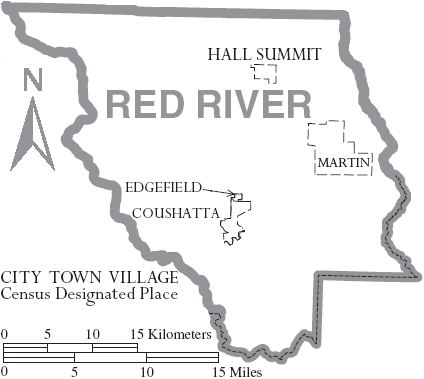 Map of Red River Parish, Louisiana, United States with municipal boundaries